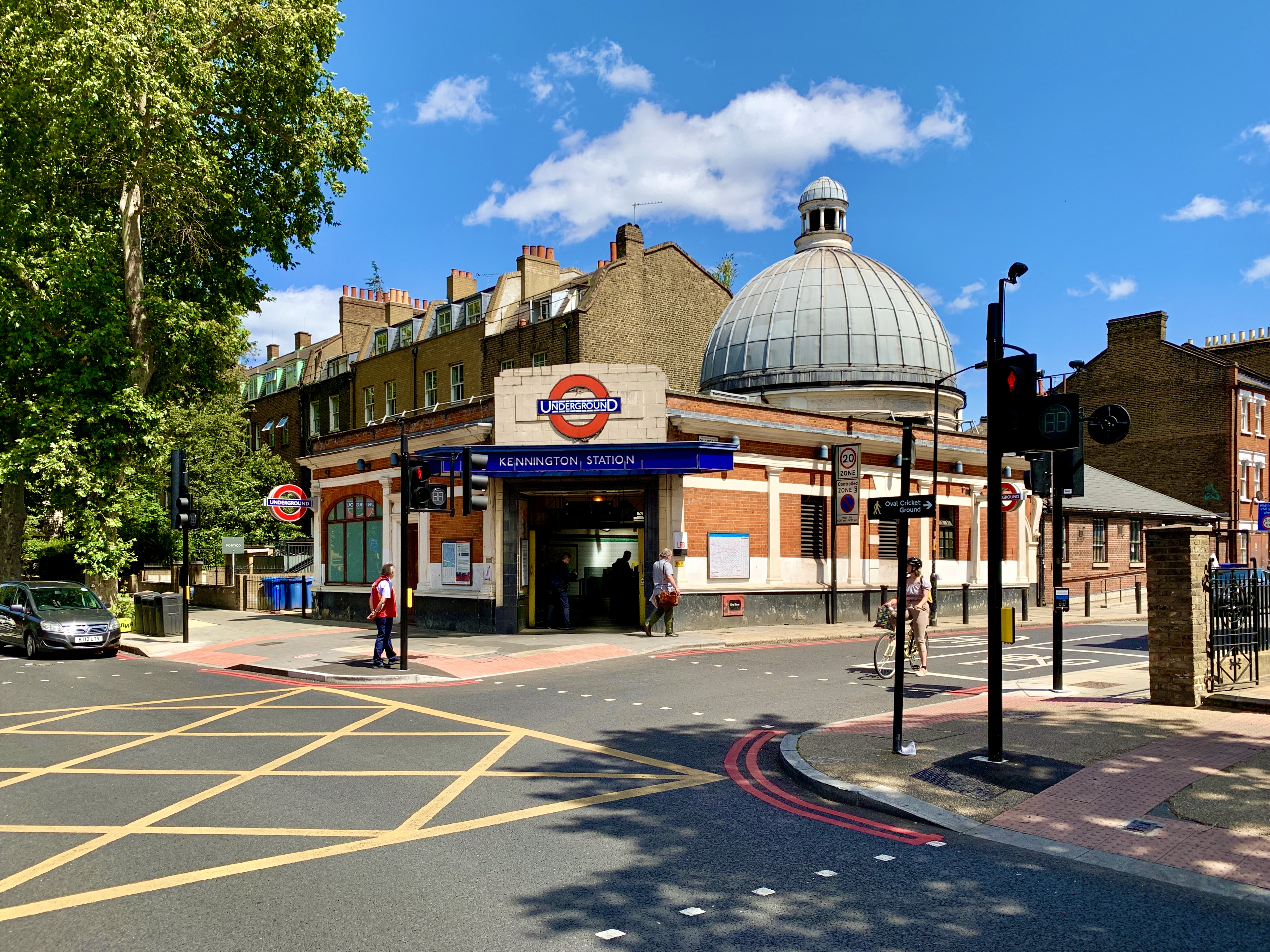 Front view of the entrance building of Kennington tube station. Taken during my Northern Line Tube Walk.